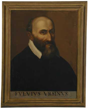 Portrait of Fulvio Orsini, Italian humanist and Antiquarian by unknown artist active, oil on canvas (65X50), Bologna, Archivio Storico dell'Università degli Studi